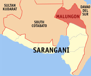 Map of the Sarangani showing the location of Malungon